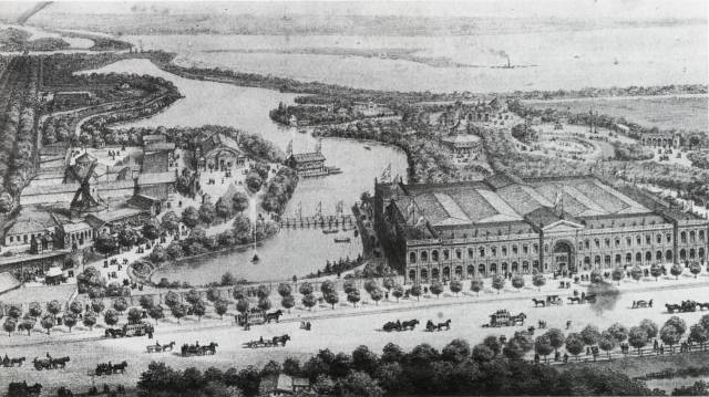 The grounds of the Nordic Exhibition of 1872 in Copenhagen, Denmark at Vesterbro Passage at the site of modern day Rådhuspladsen and the beginning of Vesterbrogade. The Tivoli Gardens are seen in the background.